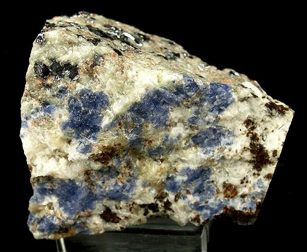 Burbankite, Sodalite, Galena Locality: Cerro Sapo, Ayopaya Province, Cochabamba Department, Bolivia (Locality at ) Size: 5.1 x 4.3 x 4.0 cm. The Cerro Sapo area (the following is quoted from MINDAT) "is one of the few alkaline provinces in the Andes. The interesting minerals are from a large dike, 2km long, 1 - 5m wide, of pegmatitic ankerite-sodalite-barite carbonatite, which cuts a nepheline syenite intrusion and the surrounding hornfels and slate. Source of all the sodalite beads found in Inca and pre-Inca ruins ranging from Quito (Ecuador) to Tucuman (Argentina)." The mostly albite matrix is highlighted by blue sodalite and metallic-bright galena crystals, but this excellent combination specimen also contains the rare cerium carbonate, burbankite (reddish), plus brown ankerite and dawsonite and white hisingerite. Very representative and rare combination material from this uncommon locale. Ex. Wes Parker Collection.